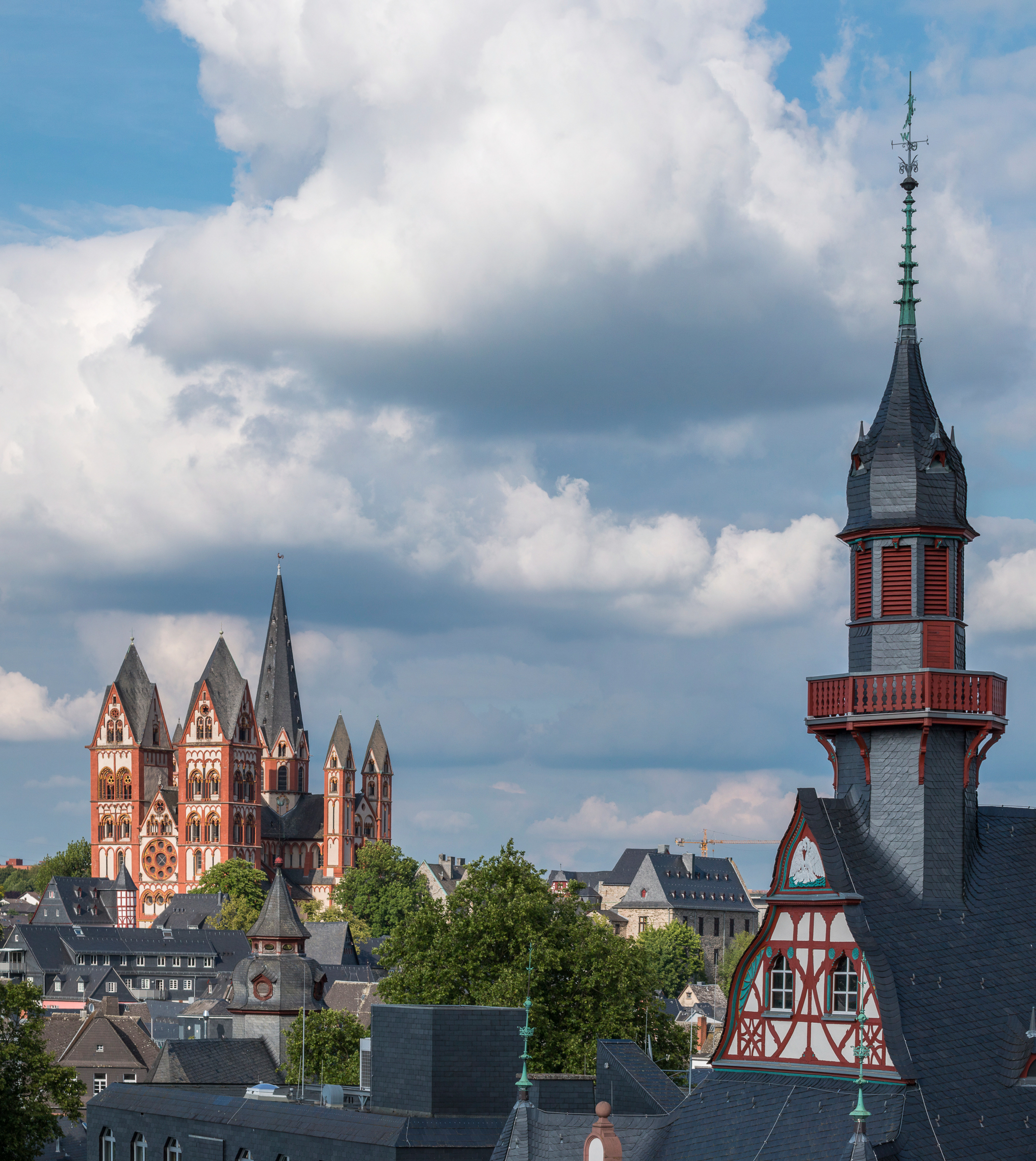 Limburg Cathedral towering the city of Limburg